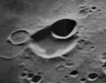 Oblique view of Resnik, on the far side of the moon, facing west.